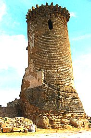 A Tower of Castello di Poggio Diana, Ribera, Agrigento, Sicily